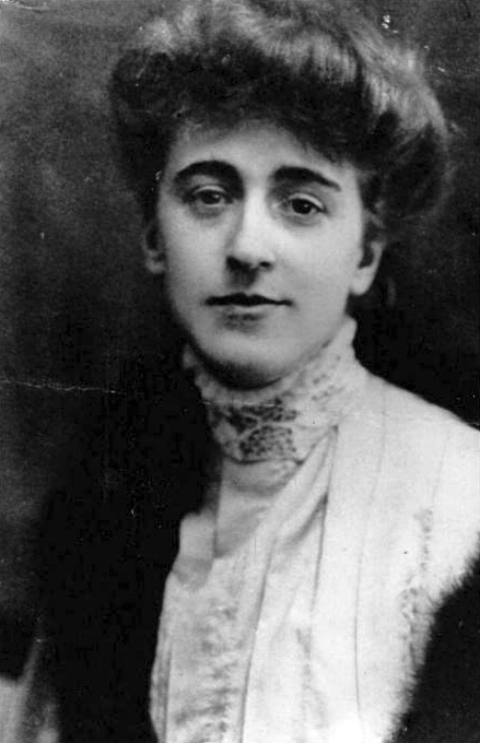 Marian Cruger Coffin (1876–1957)